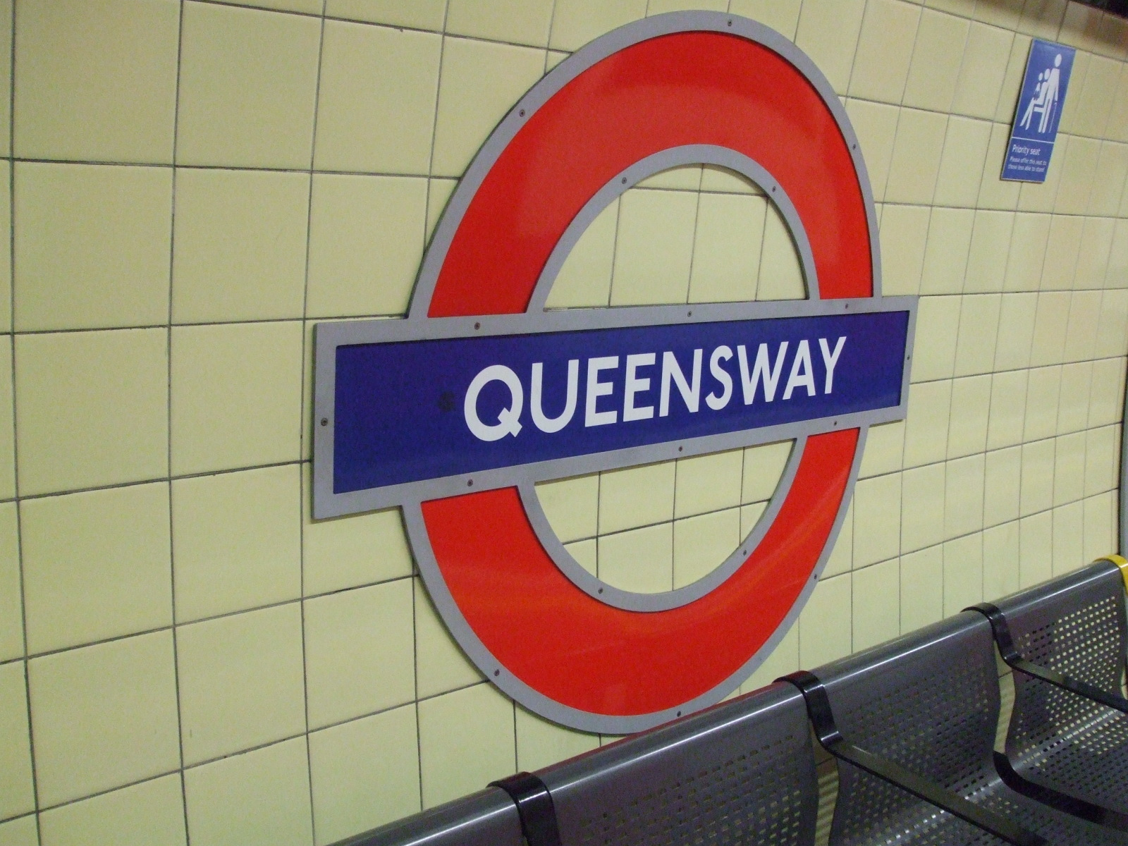 Queensway tube station platform roundel